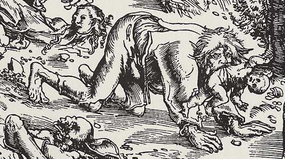 Cropped version of werwolf.png for use in Nebuchadnezzar (Blake)